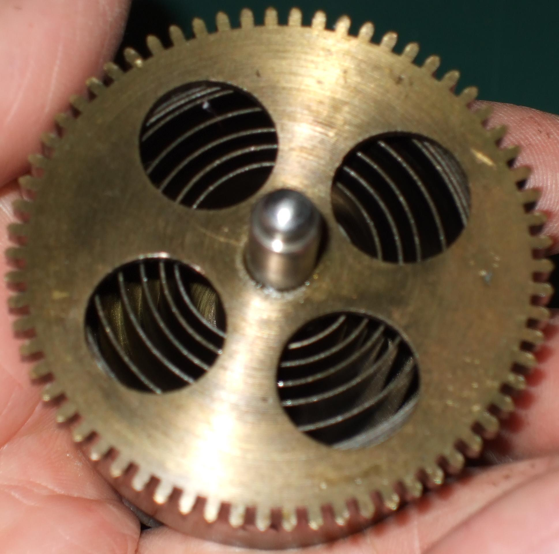 The mainspring barrel from a clock. The mainspring which drives the clock, a coiled ribbon of spring steel, is visible inside the barrel. The clock is wound up by fitting a key onto the squared-off axle of the barrel (on other side) and turning it, winding the spring inside closer around the axle, storing energy in the spring. The other end of the spring is attached to the barrel. The force of the wound up spring turns the barrel, and the ring of gear teeth around the outside turns the clock's gears, until the spring runs down and needs to be wound again. WARNING: Do not open the device you are seeing on the picture unless you have the special tools and training needed to perform this work. Mainsprings contain a lot of energy. Even a broken spring is powerful enough to injure you or others very seriously! Do not disassemble clockworks by yourself, unless you know how take the necessary precautions. Disassembly of a clockwork without such precautions may cause serious injury of you or other persons. You may also destroy the clock. These pictures are not presented here to inspire you to disassembly, but to give you the insights without having to disassemble a clockwork by yourself!